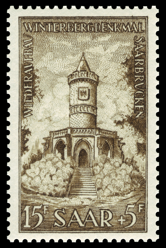 Additional fee for reconstruction of Saarland monuments